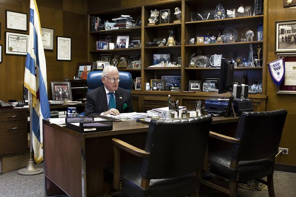 Alderman Edward M. Burke of the 14th Ward in Chicago, IL, USA at his desk in his 14th Ward office, as photographed by Jennifer Joanna Greenburg as part of the 50 Aldermen/50 Artists project.